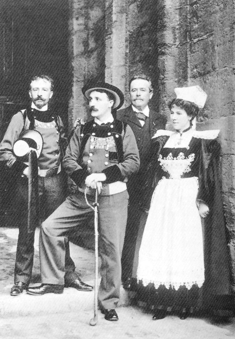 photograph of Emile Hamonic, Theodore Botrel, Paul Barbier and Lena Botrel at the Celtic Congress, 1904